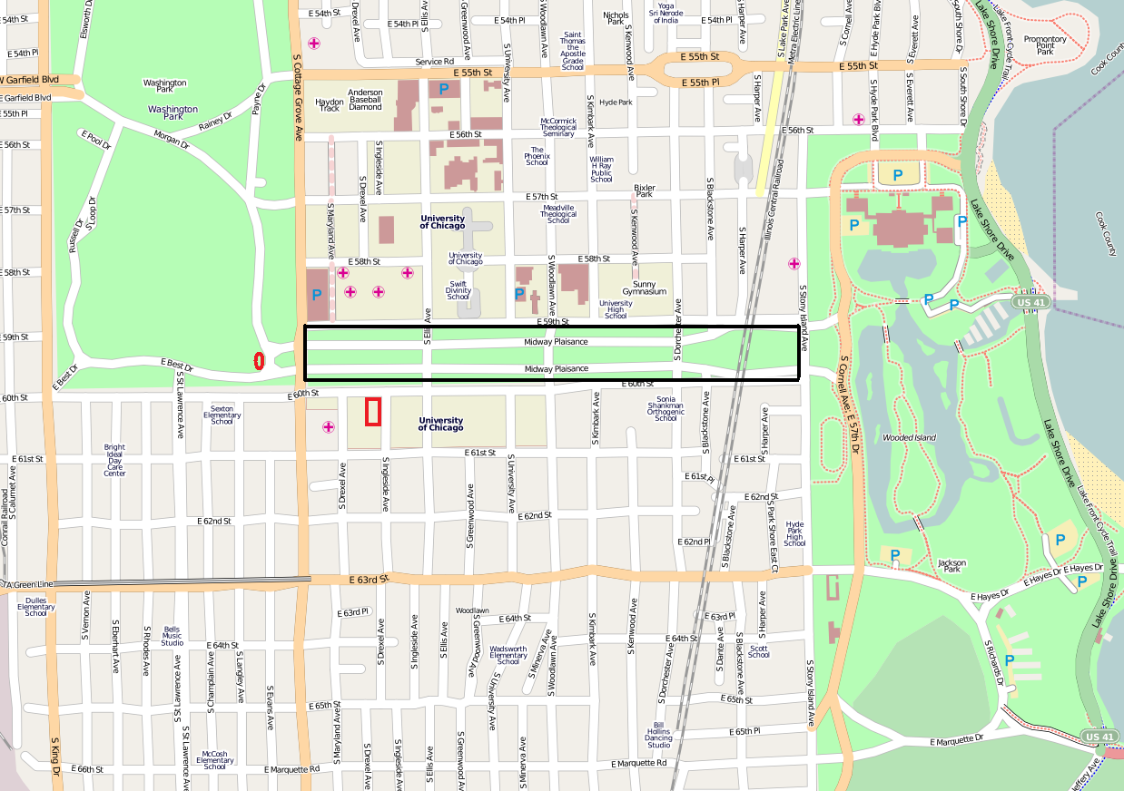 OpenStreetMap map image of Woodlawn, Chicago and Hyde Park, Chicago. I have added Fountain of Time, Lorado Taft Midway Studios and Midway Plaisance to a map showing parts of Washington Park (Chicago park) and Jackson Park (Chicago) This map may be incomplete, and may contain errors. Don't rely solely on it for navigation.